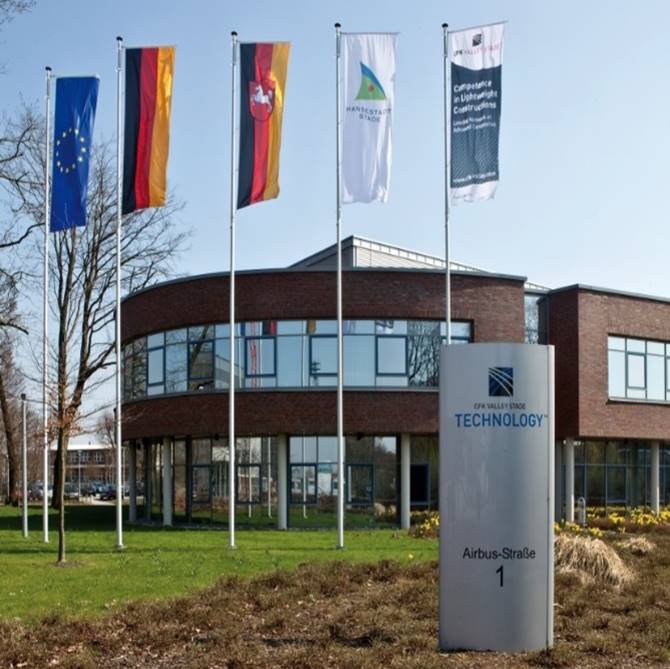 CTC GmbH - Front View